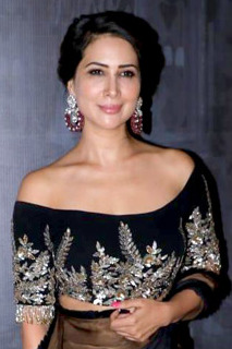 Kim Sharma graces Manish Malhotra’s fashion show, Aug 1, 2018